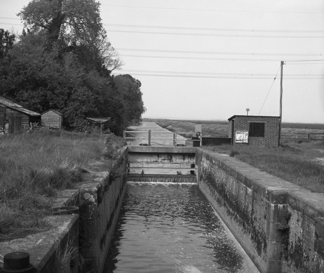 Iden Lock, Sussex Iden Lock had long been disused even when this photograph was taken in 1979. The lock connected the western end of the Royal Military Canal (seen ahead here) with the River Rother.